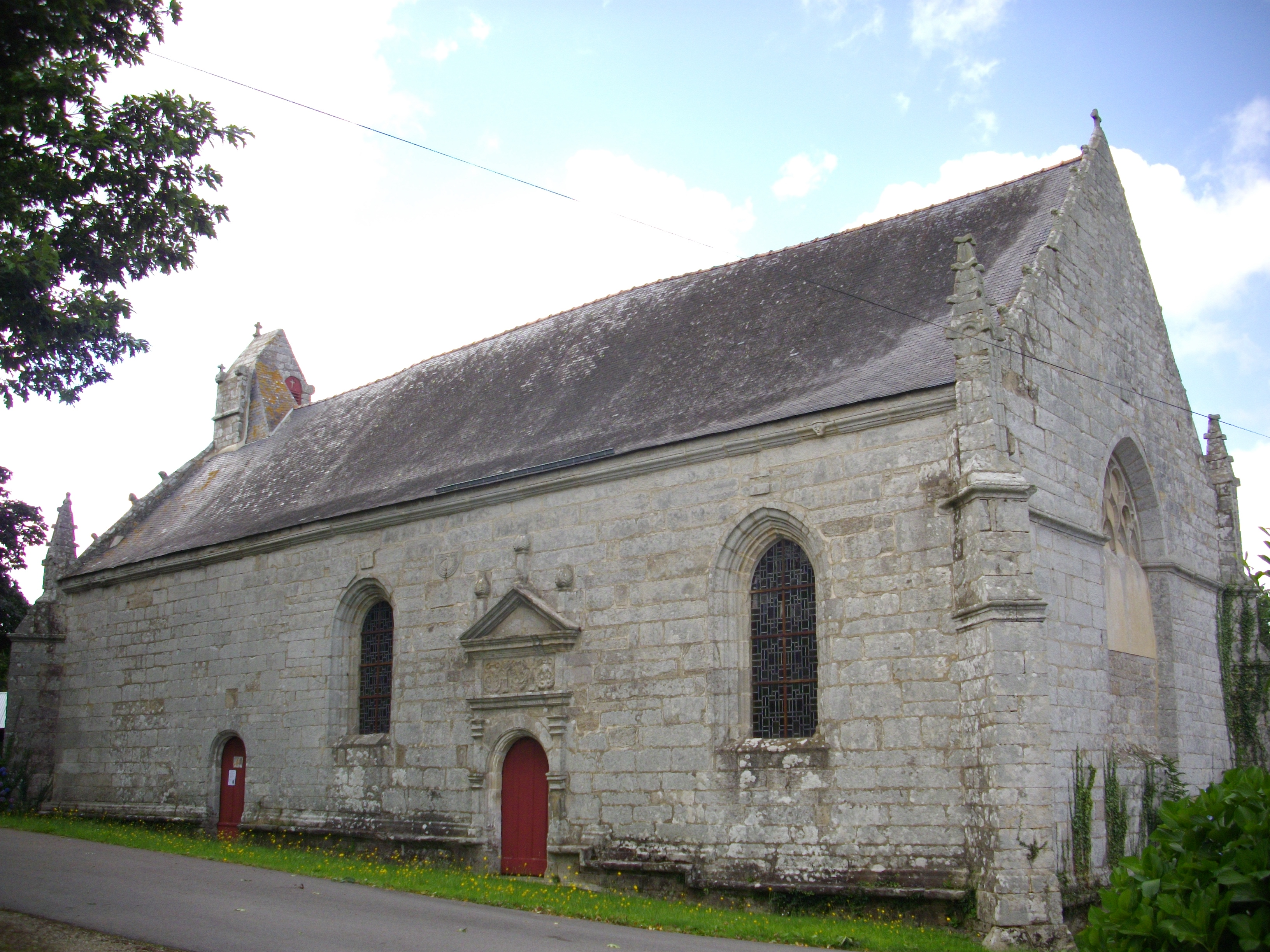 Our Lady chapel in Kerdroguen (Colpo, Morbihan, France) .